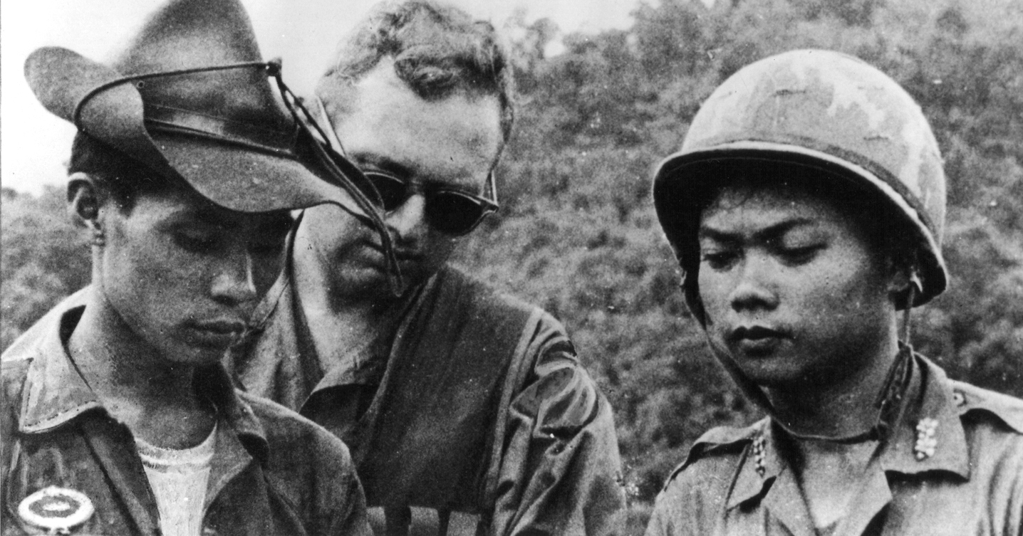 ARVN soldiers and an American advisor in Vietnam.